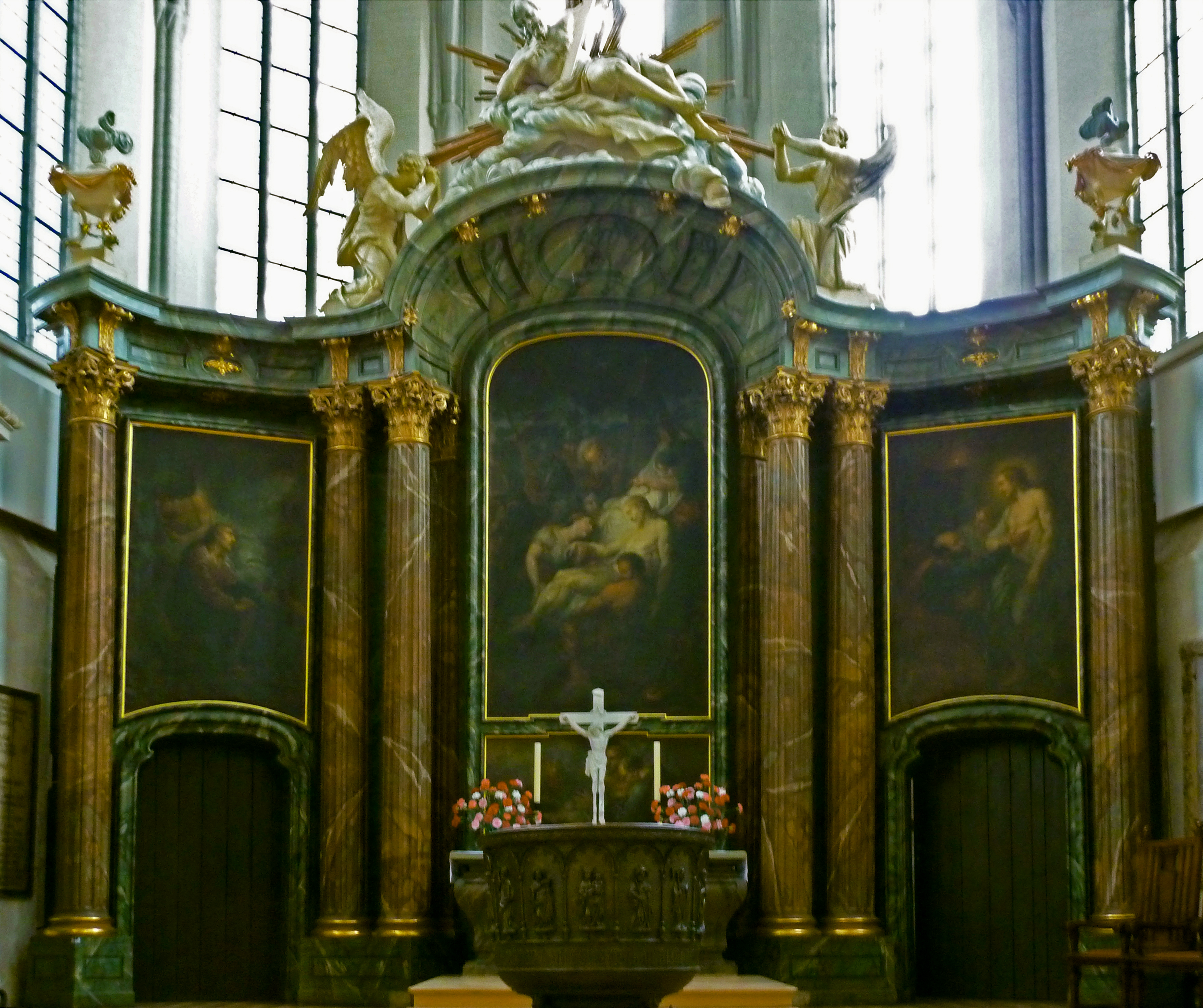 Altar pictures by C. B. Rode in St. Mary's Church, Berlin. Left: Christ's Agony in the Garden of Gethsemane (1757). Center: (above) Deposition from the Cross (1775) + (below) Disciples at Emmaus after Meeting with the Resurrected Christ (1779). Right: Doubting Thomas (1757).